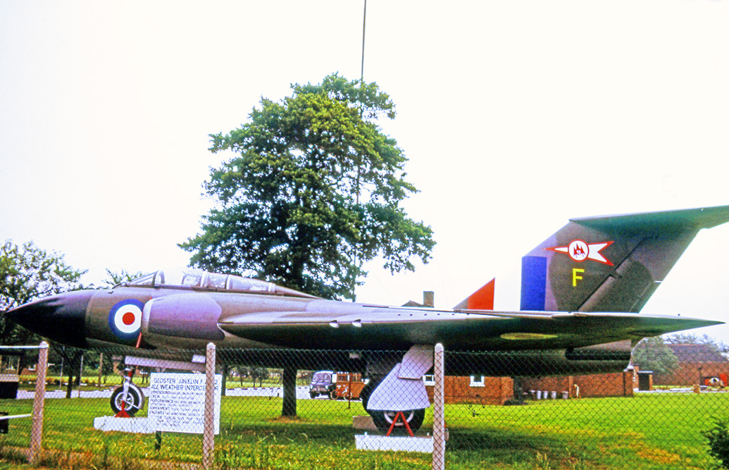 Gloster Javelin FAW.2 XA801 wearing the markings of No. 46 Squadron RAF which it served between 08.57 and 06.61